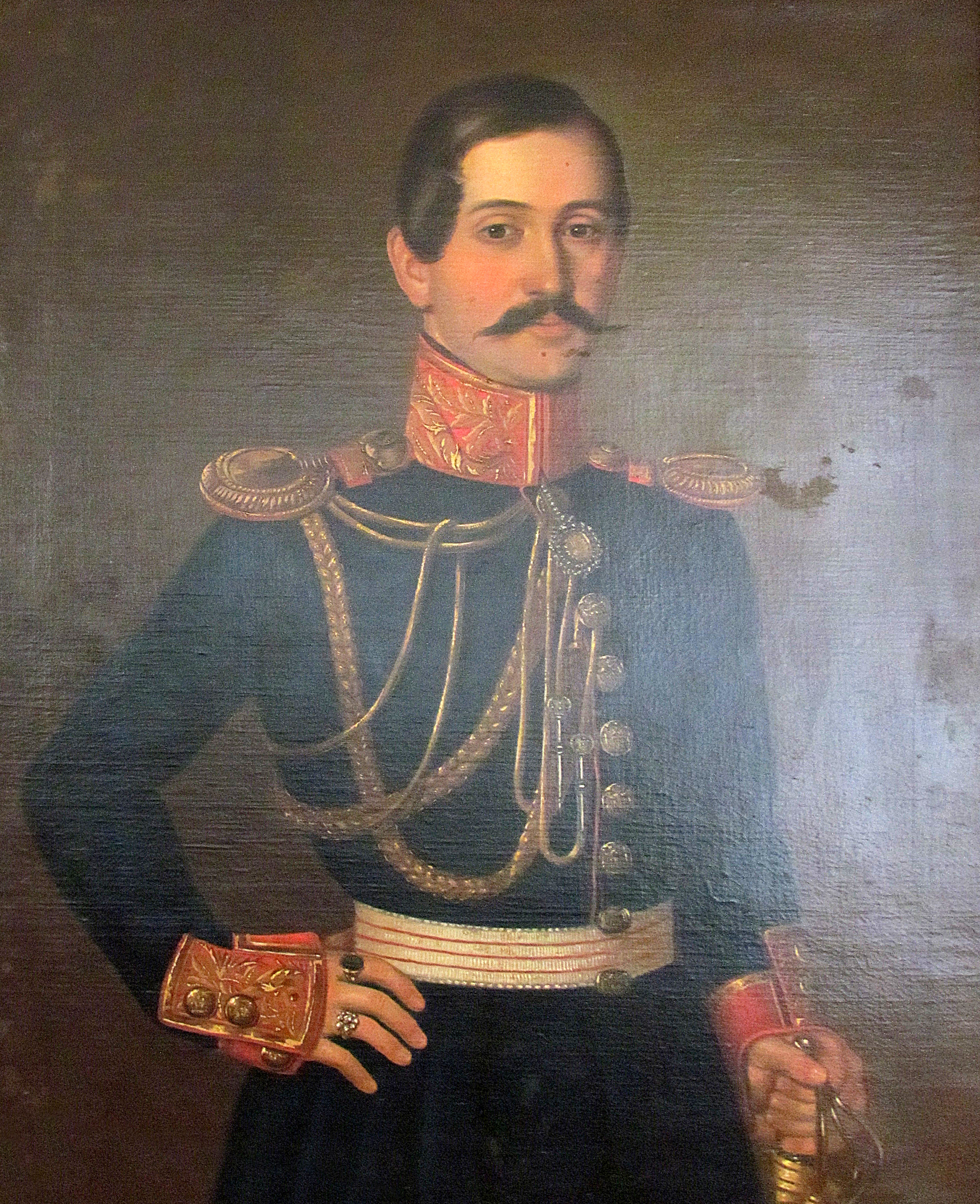 Uroš Knežević,Ljubomir Cincar Janković, 1859, Princess Ljubica's Residence